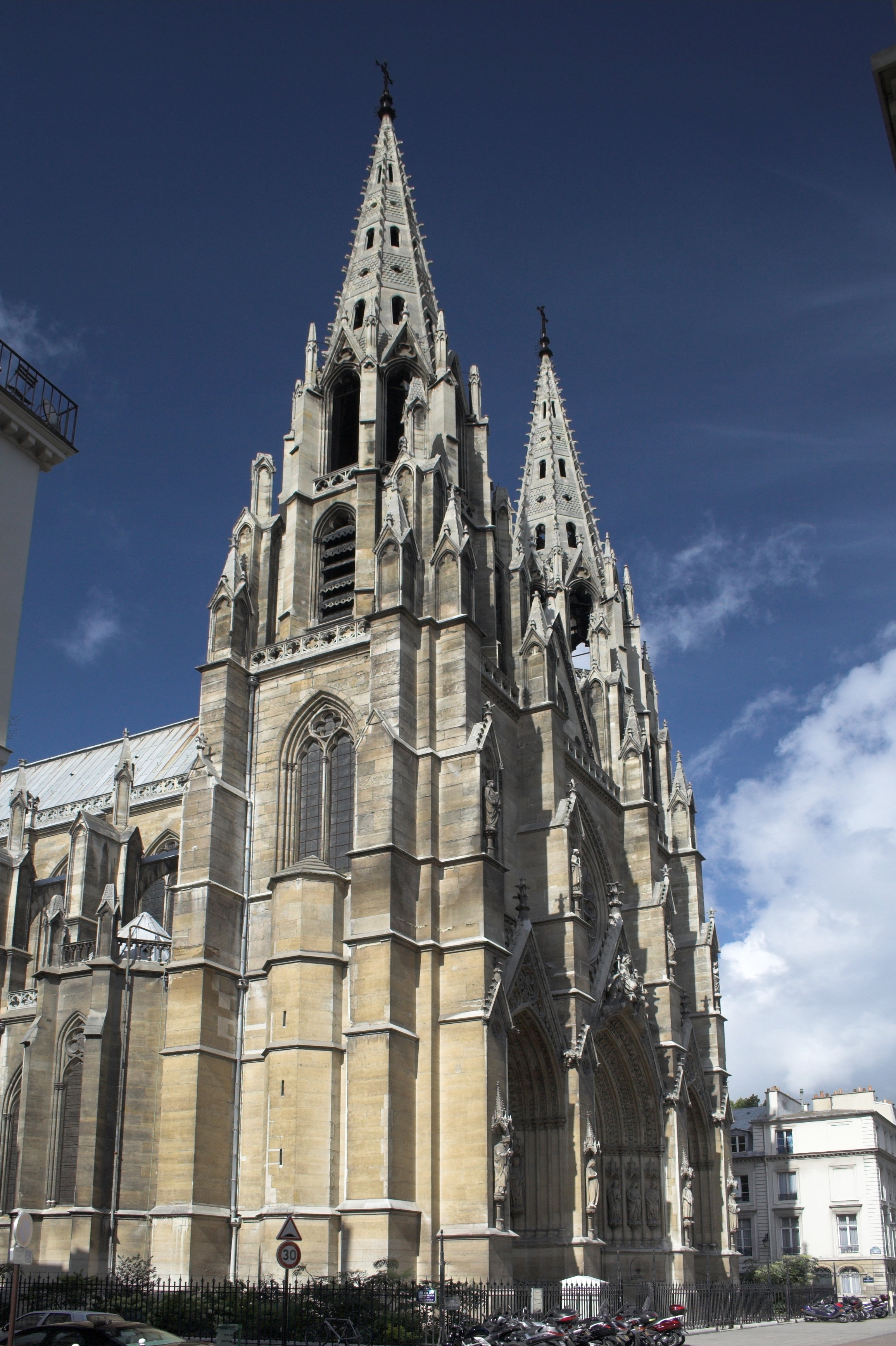 The left side view of Basilique Sainte Clotilde in Paris, France